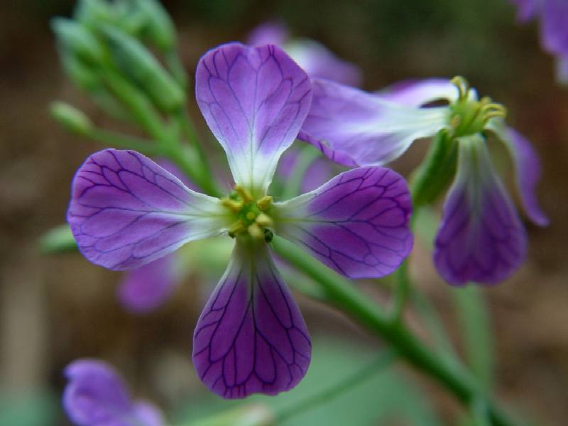 Description Raphanus sativus, Wild Radish. Date August 03, 2002 Location Glen Canyon Park - San Francisco, California Photographer Franco Folini